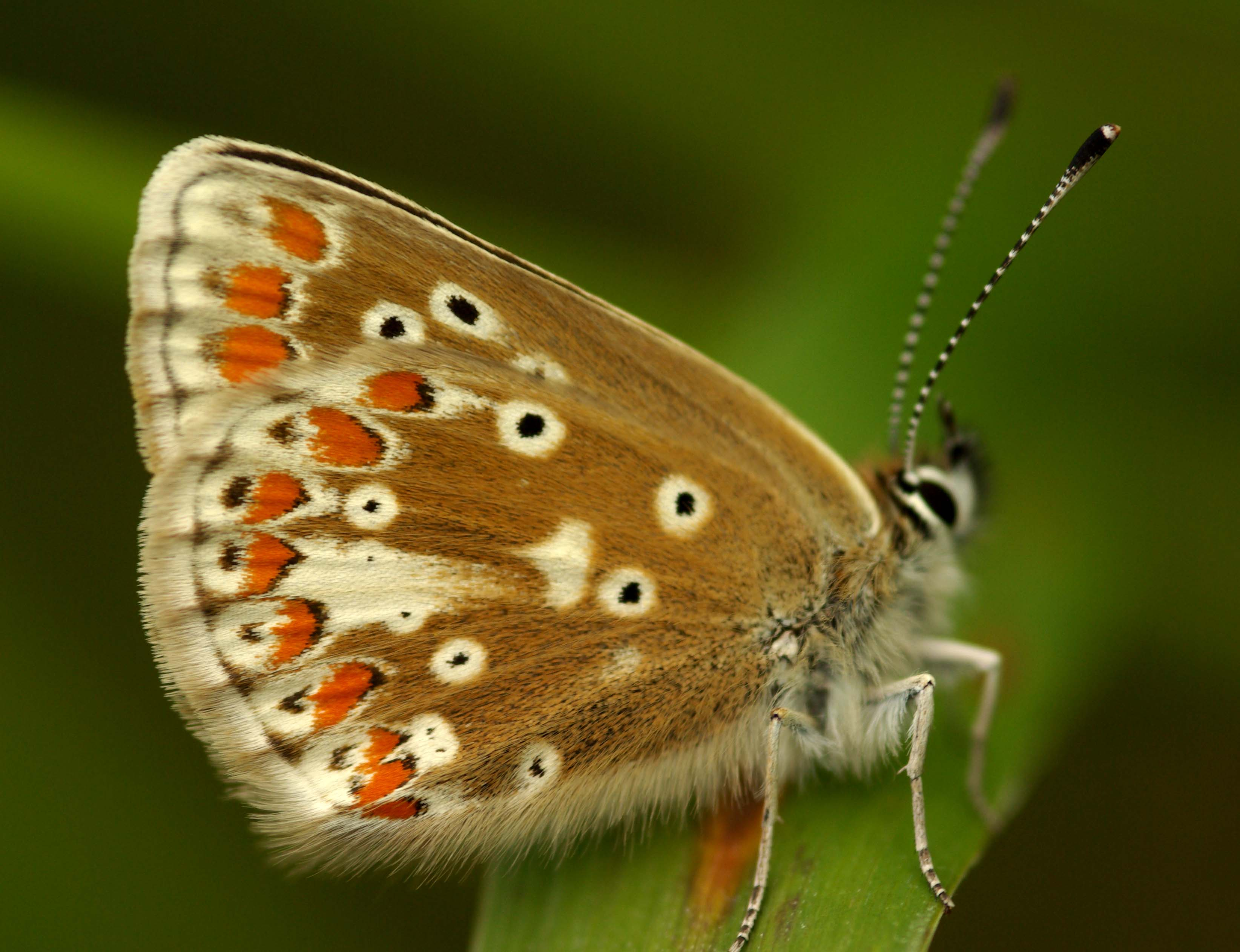 Under-wing view of Northern Argus butterfly (Aricia artaxerxes (Fabricius, 1775)) at Bishop Middleham quarry, County Durham